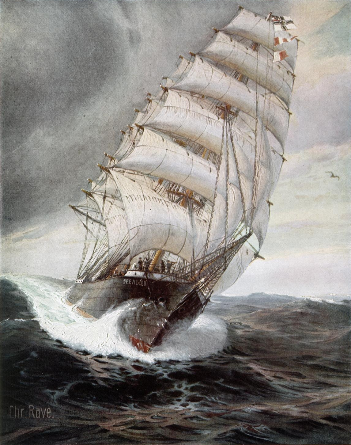 The Imperial German Navy windjammer SMS Seeadler in full sail on the high seas. Sailors can be seen near the prow, including one man, possibly meant to be her commander, Count von Luckner, gazing through a telescope.